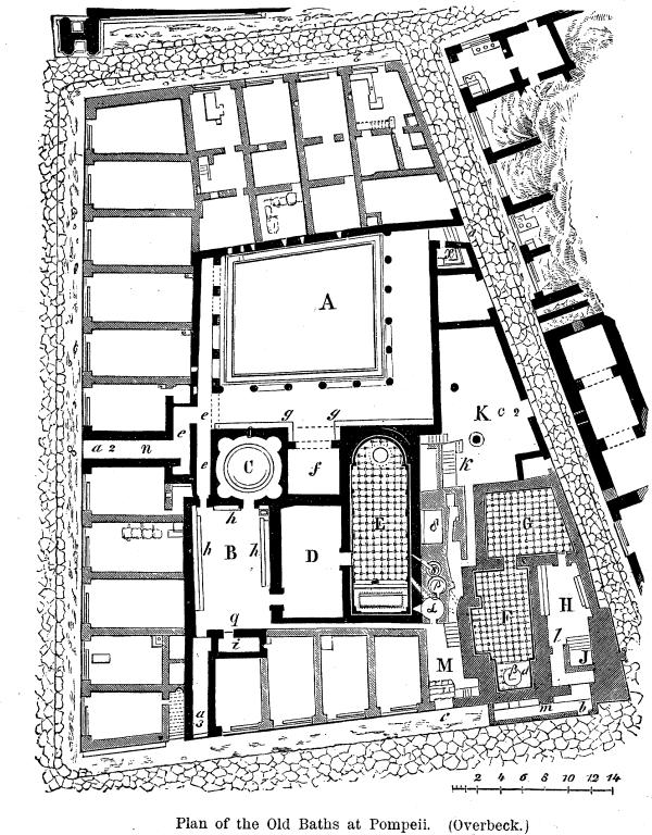 Plan of the Old Baths at Pompeii (Terme del Foro). Legend A — atrium B — apodyterium (room for undressing) C — frigidarium (cool bath) D — tepidarium (warm room) E — caldarium (hot bath) F — thermal chamber G — women's tepidarium H — women's apodyterium J — women's cold bath K — the servants' atrium M — chamber for fornacatores (persons in charge of the fires) a, a2, a3 — entrances to men's baths b — entrance to women's baths c, c2 — entrances to furnace rooms d — circular furnace e — passages f — probably an oecus or exedra g — portico h — walls i — small room m — small vestibule q — passage to the furnace room r — mouth of the furnace x — water closet (latrina)